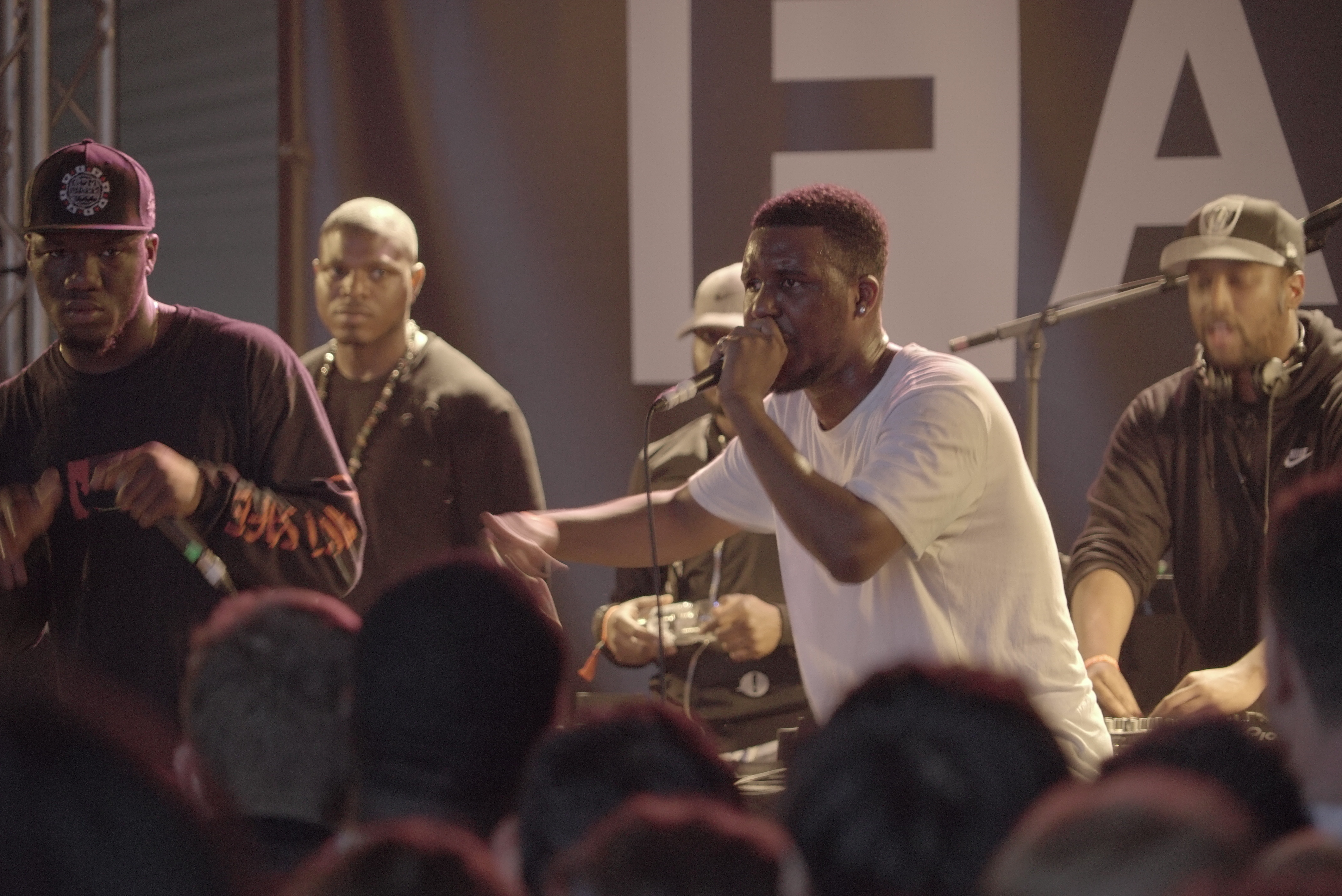 Novelist performs on the Fader stage at Field Day 2016